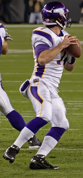 Christian Ponder back to pass in a November 14, 2011 game between the Minnesota Vikings and the Green Bay Packers.